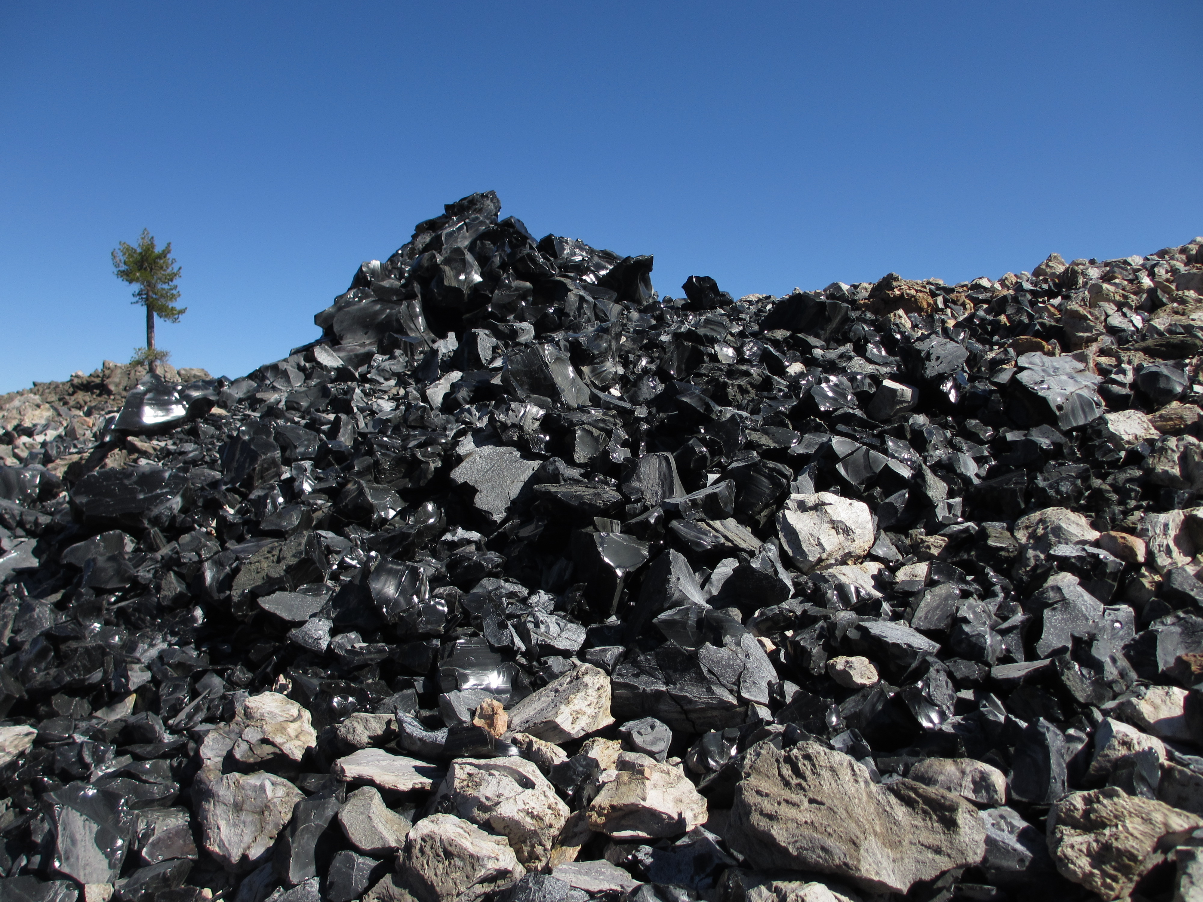 Glass Mountain, part of Medicine Lake Volcano in Northern California, USA